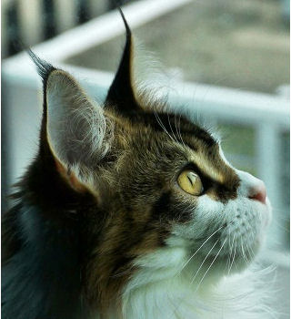 Profile of a 7-month old Maine coon. It shows some of distinctive features of the breed:big ears, lynx-tips, and a gentle curve. The image was taken in the USA in 2011.